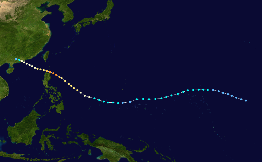 Typhoon Ellen 1983 track. Uses the color scheme from the Saffir-Simpson Hurricane Scale.